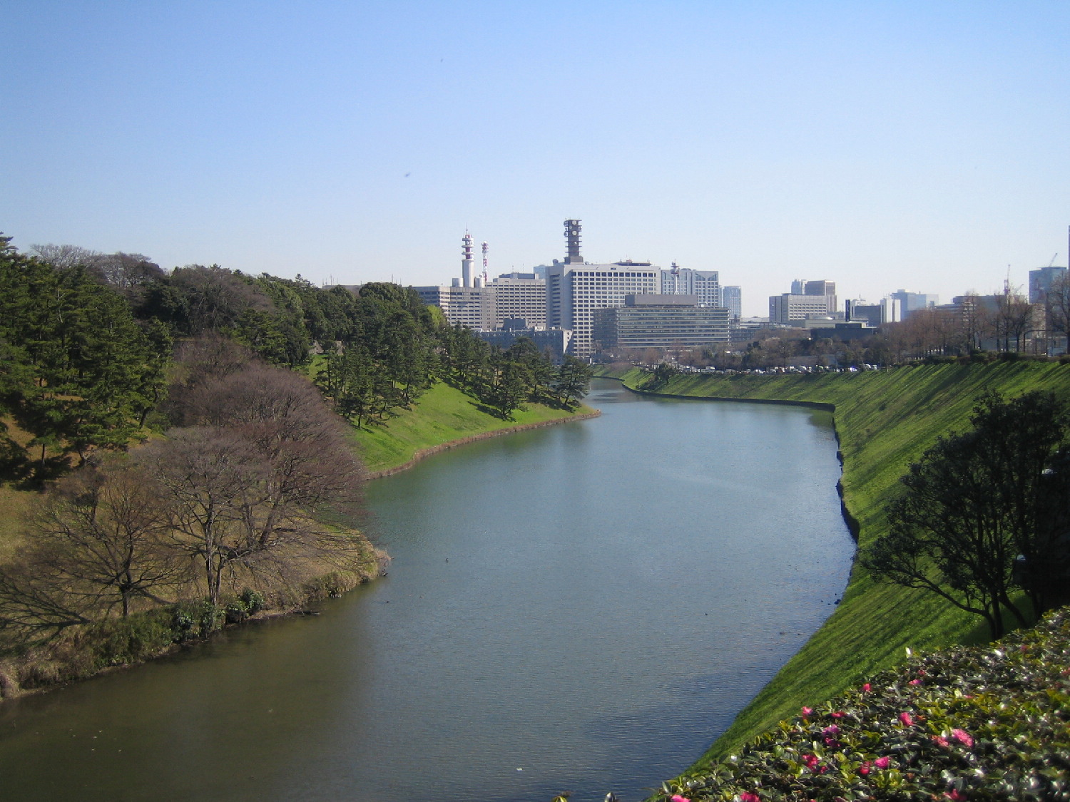 The Moat of The Imperial Palace.